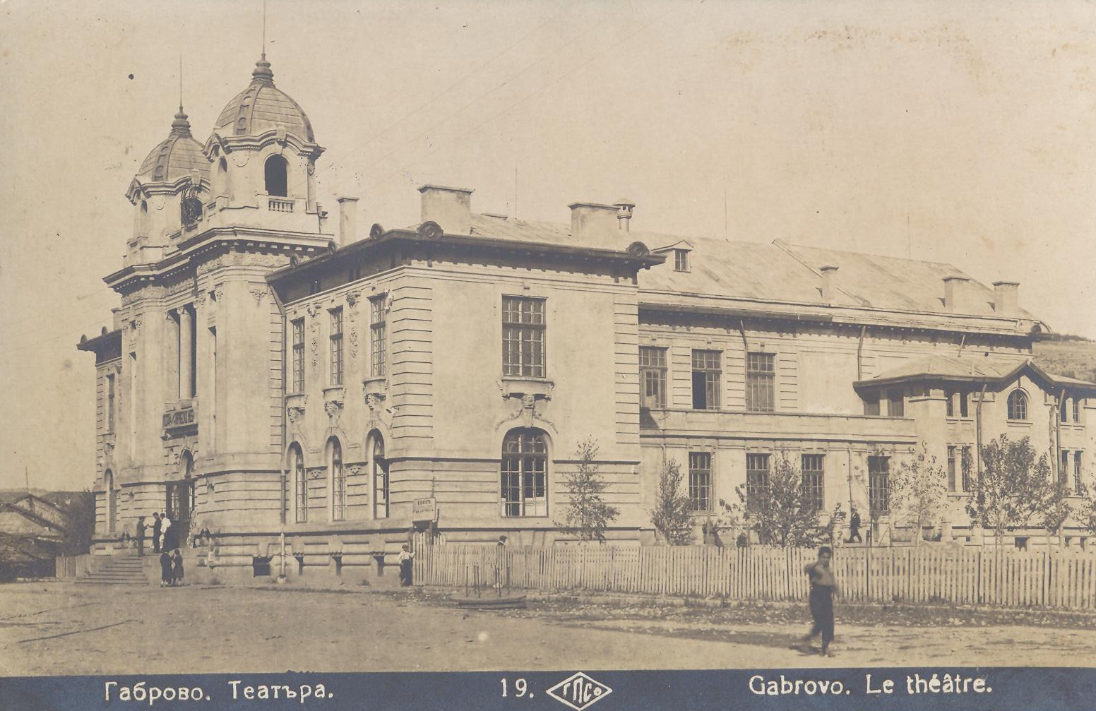 Racho Stoyanov Drama Theatre in Gabrovo, Bulgaria, postcard.